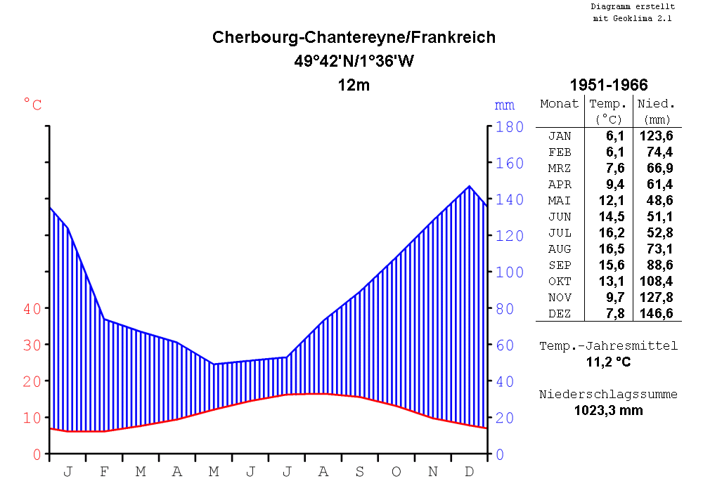 climate chart of Cherbourg-Chantereyne, France, for the period of time from 1951 to 1966, in the format by Walter and Lieth, metric, °Celsius and millimeters, chart made with Geoklima 2.1, label in German